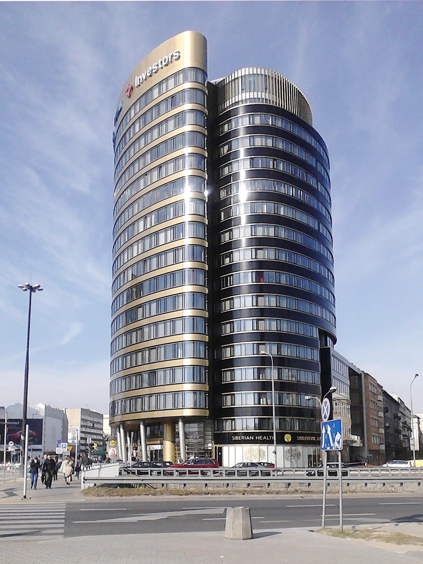 Zebra Tower in Warsaw.